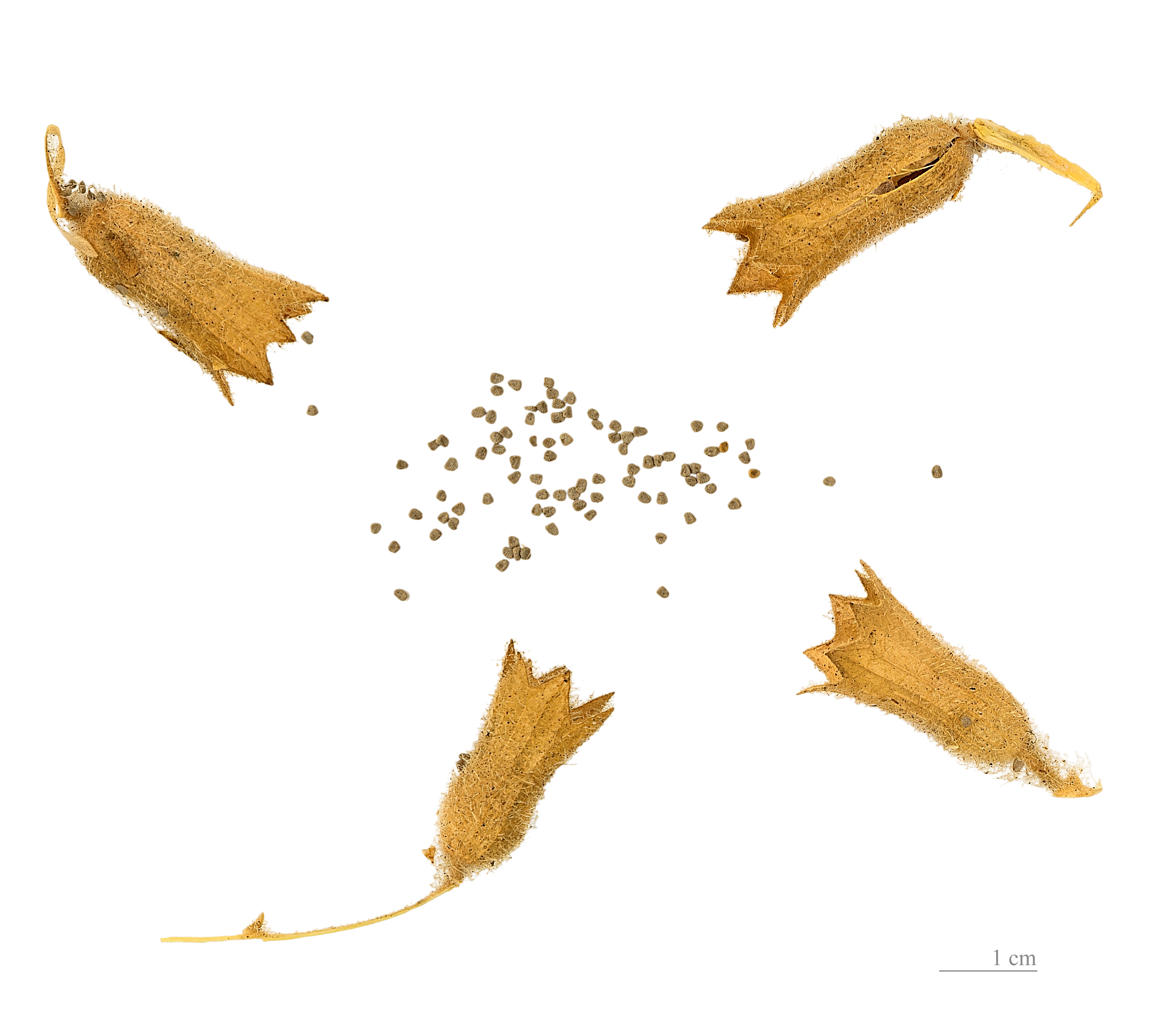 White Henbane ,fruits and seeds